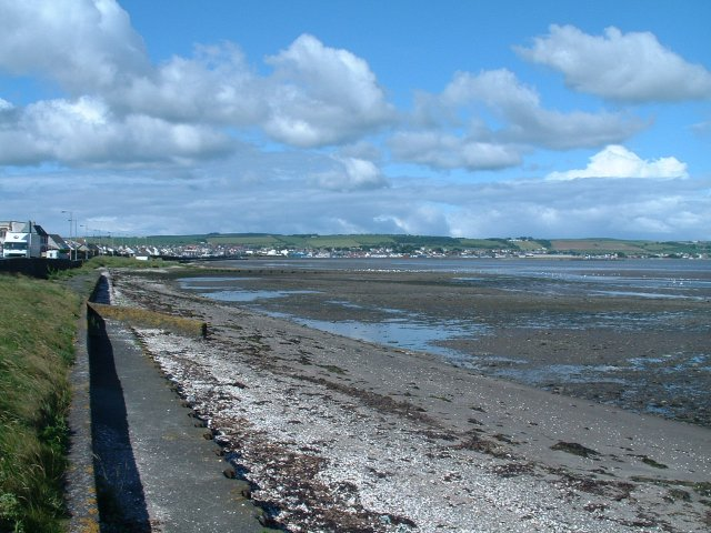 Photograph of Stranraer as viewed from extreme north east of town, taken from A77 looking back across the town and shores of Loch Ryan.